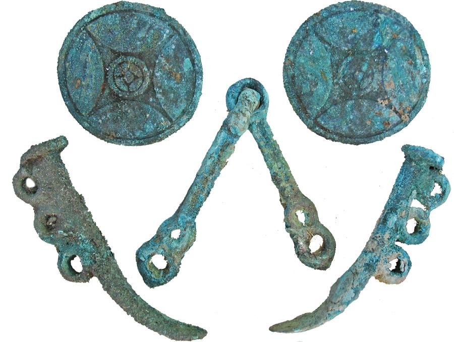 Удила, псалии и уздечные бляхи из кургана Уашхиту, 2 (1 тыс. до н.э.). Из раскопок В.Р.Эрлиха (Музей Востока, Москва). Кабехабль, Адыгея, Россия. =не из книги=